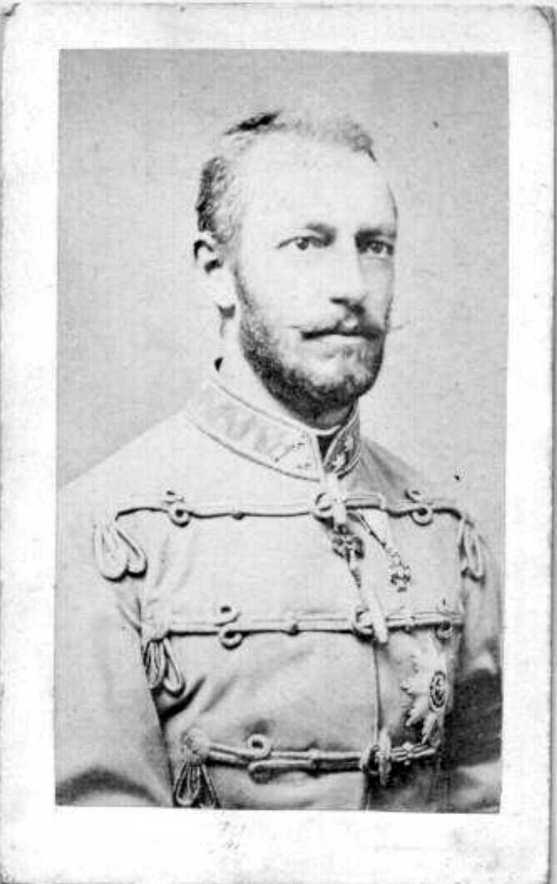 Joseph Karl Ludwig, Archduke of Austria, 1833-1905, son of Joseph Archduke of Austria (Palatine of Hungary) and Maria Dorothea of Wuerttemberg.